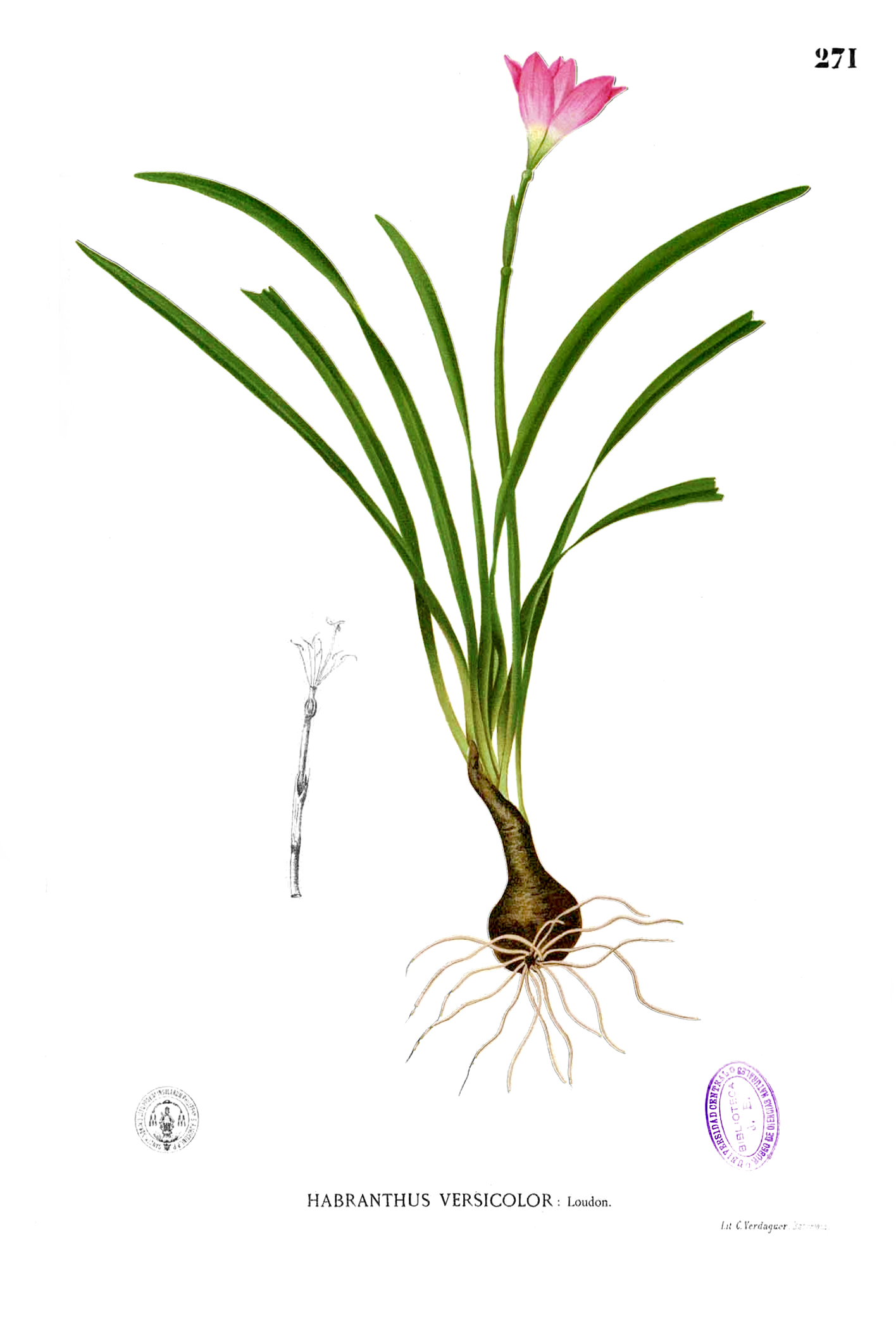 Plate from book